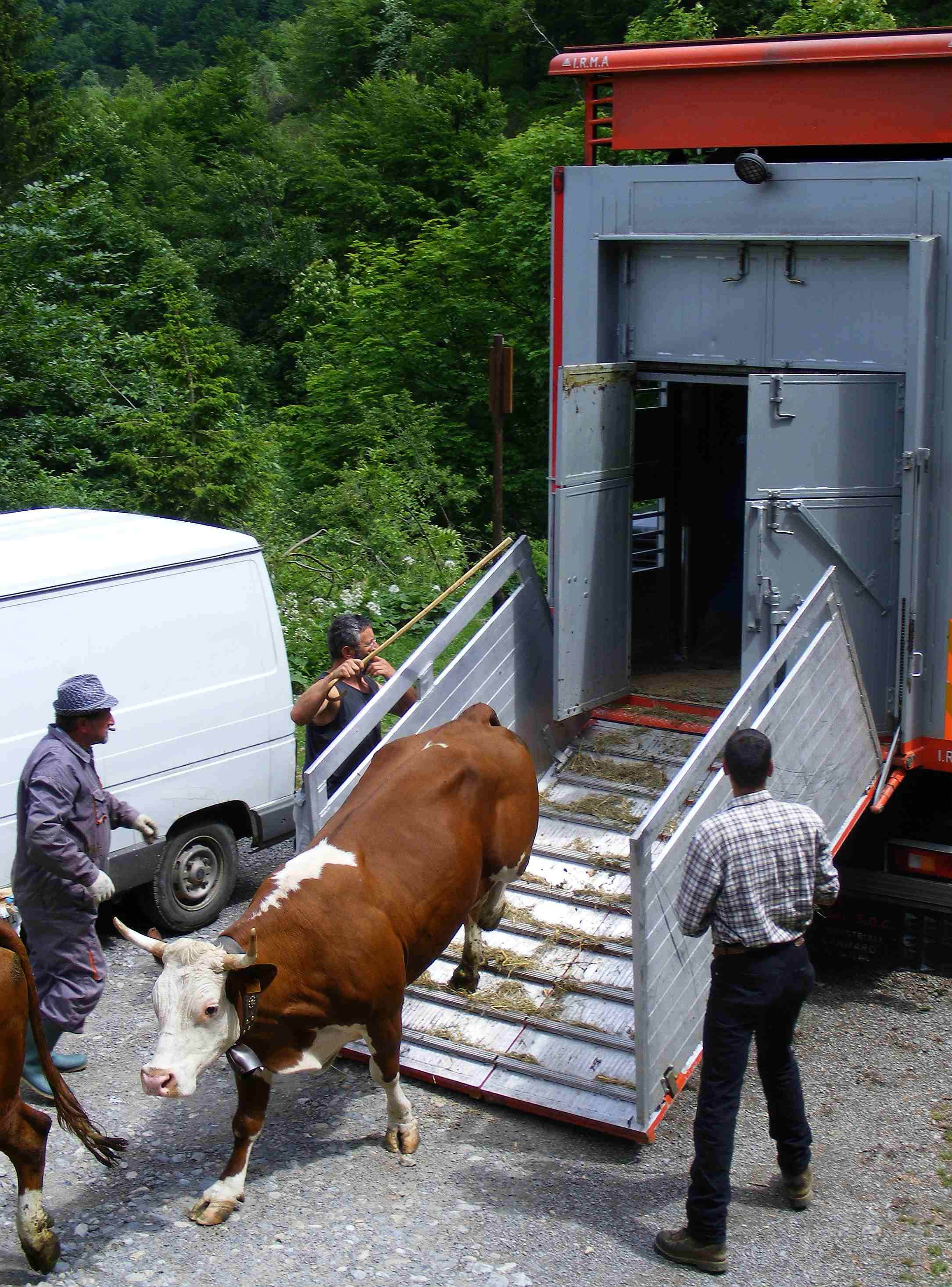 Cattle transport at Bocchetto di Sessera (BI, Italy)